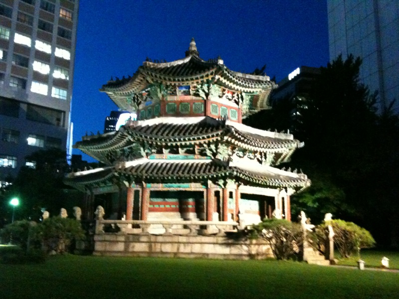 円丘壇 at Westin Chosun Hotel, Seoul